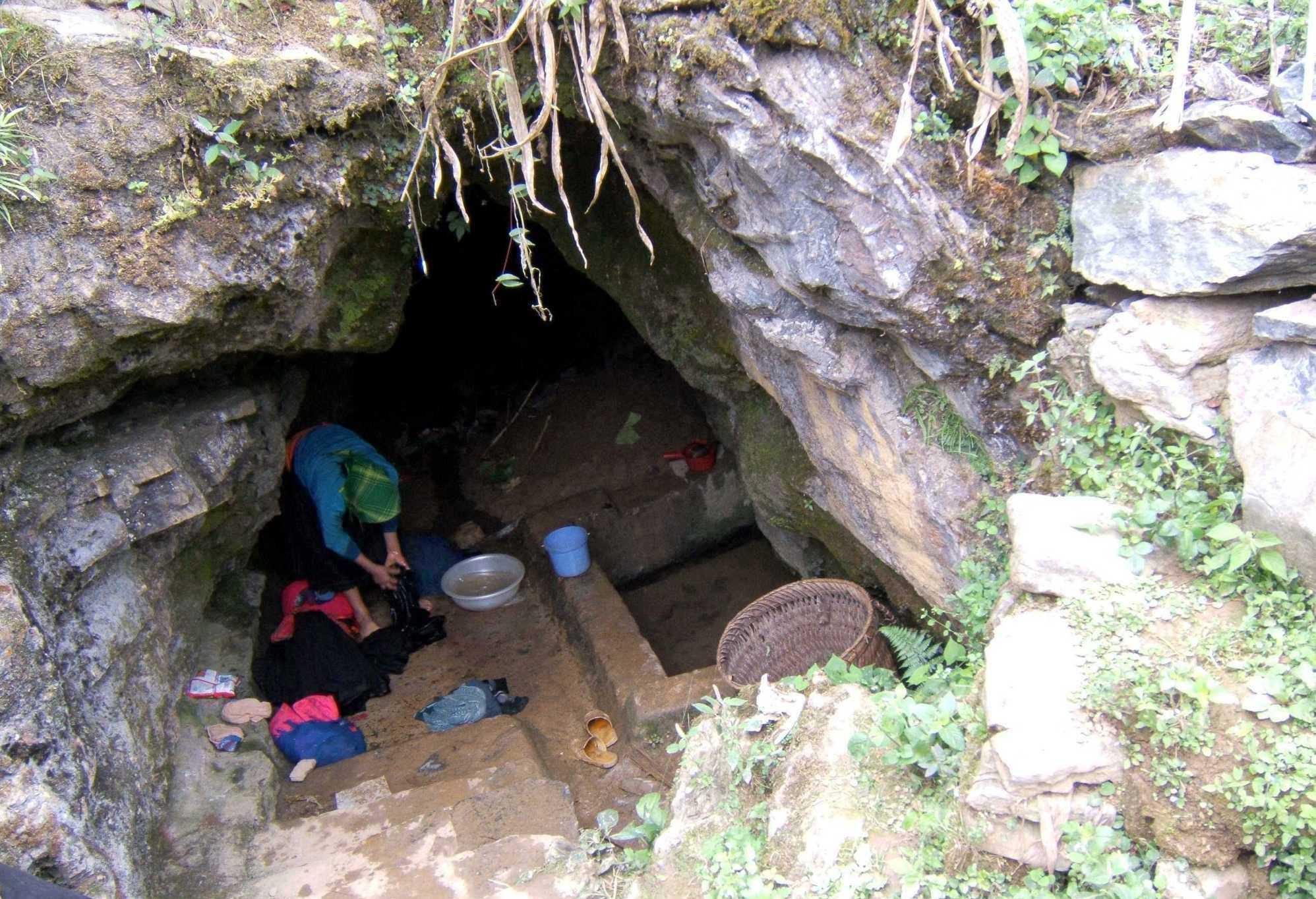 A small karst in Sinh Lủng commune, Đồng Văn district, Hà Giang province, a rare spring for water in dry season in Dong Van Karst Plateau Geopark.